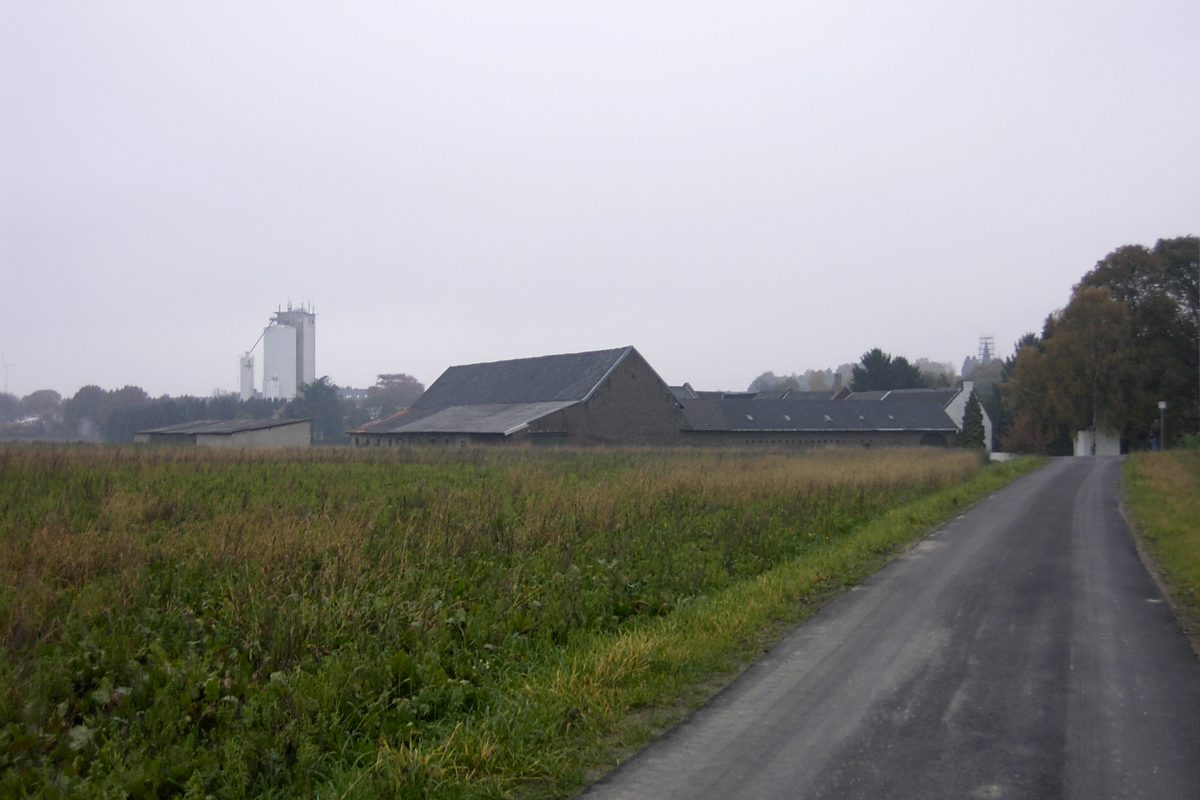 view on Geilenkirchen-Gillrath, with Heinsberger Agrar-Handel and Gut Gillrather Hof